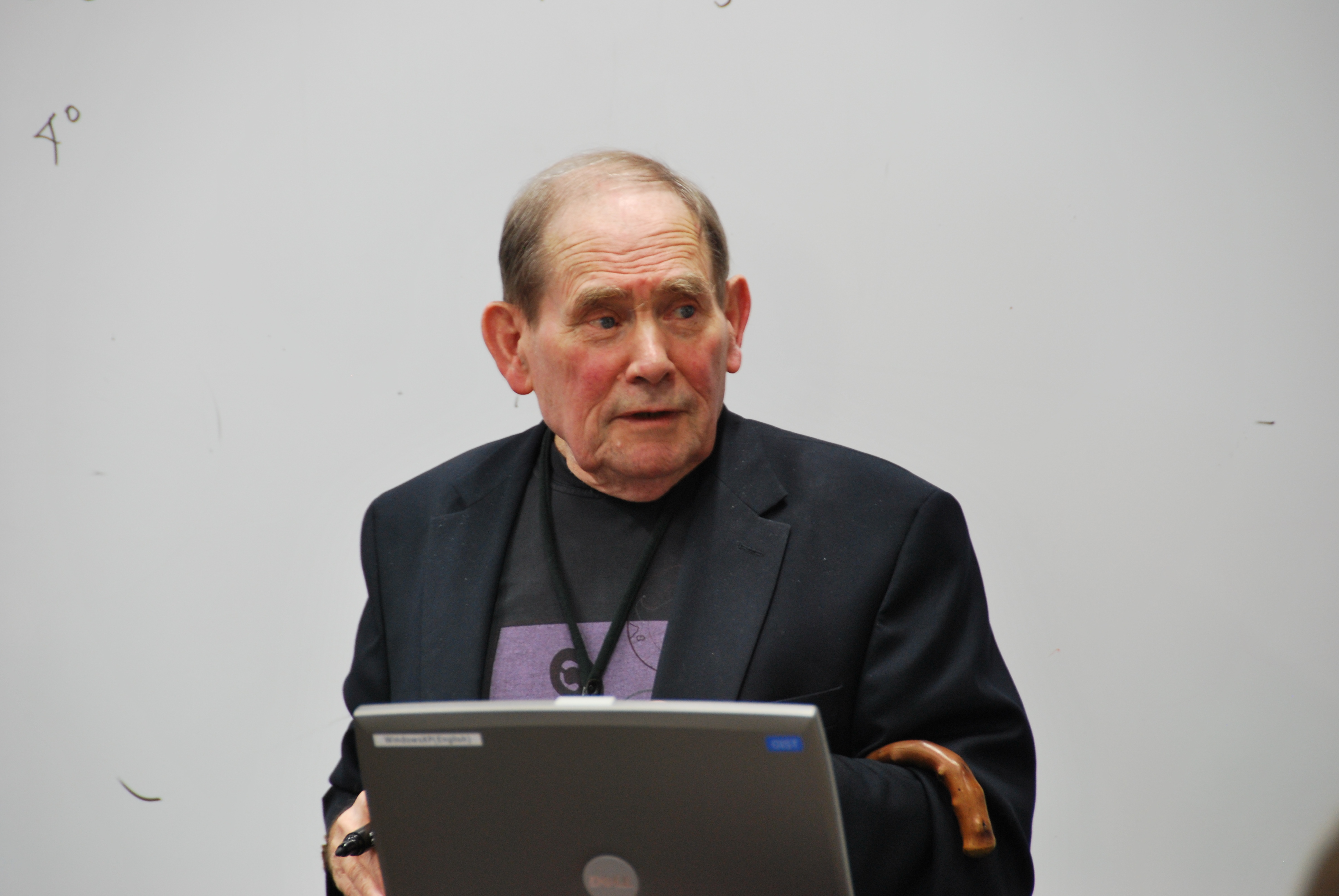 Sydney Brenner speaking at the Okinawa Institute of Science and Technology, December 2008